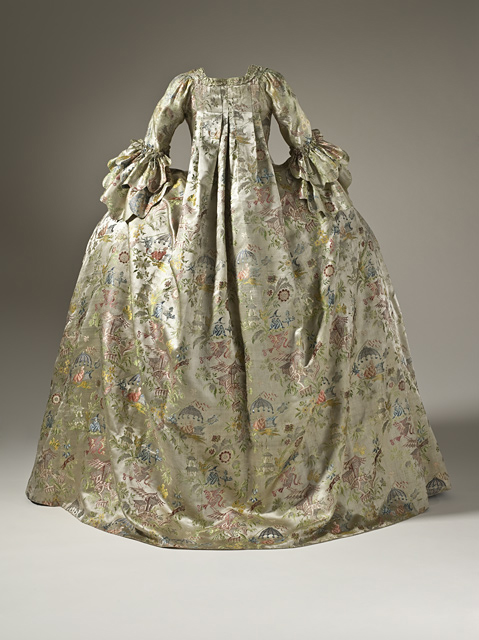 Amsterdam, Netherlands. Woman’s Robe à la Française, 1740-60. Silk satin with silk and metallic-thread supplementary weft-float patterning